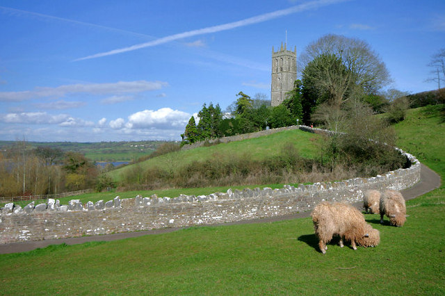 The path up to Blagdon church